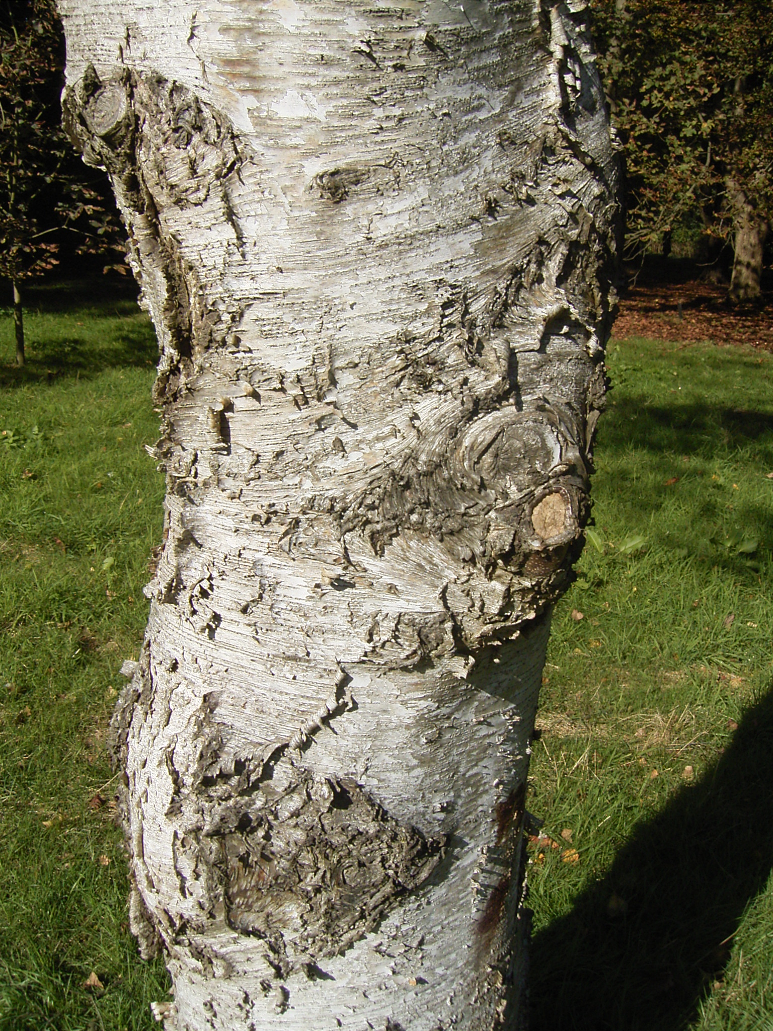 Deze foto toont de stam van Betula platyphylla. Ik nam de foto in het universiteitsarboretum Belmonte in Wageningen. This pic shows the trunc of Betula platyphylla. I took the photo in the university arboretum in Wageningen.